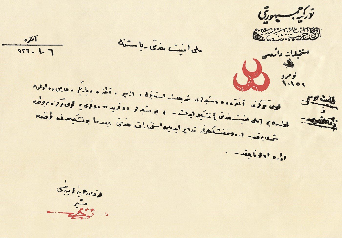 The Establishment Document 10152 of January 6, 1926 of Milli Emniyet Hizmeti (M.E.H.) Riyaseti (Documents from the Private Archives of the MIT)